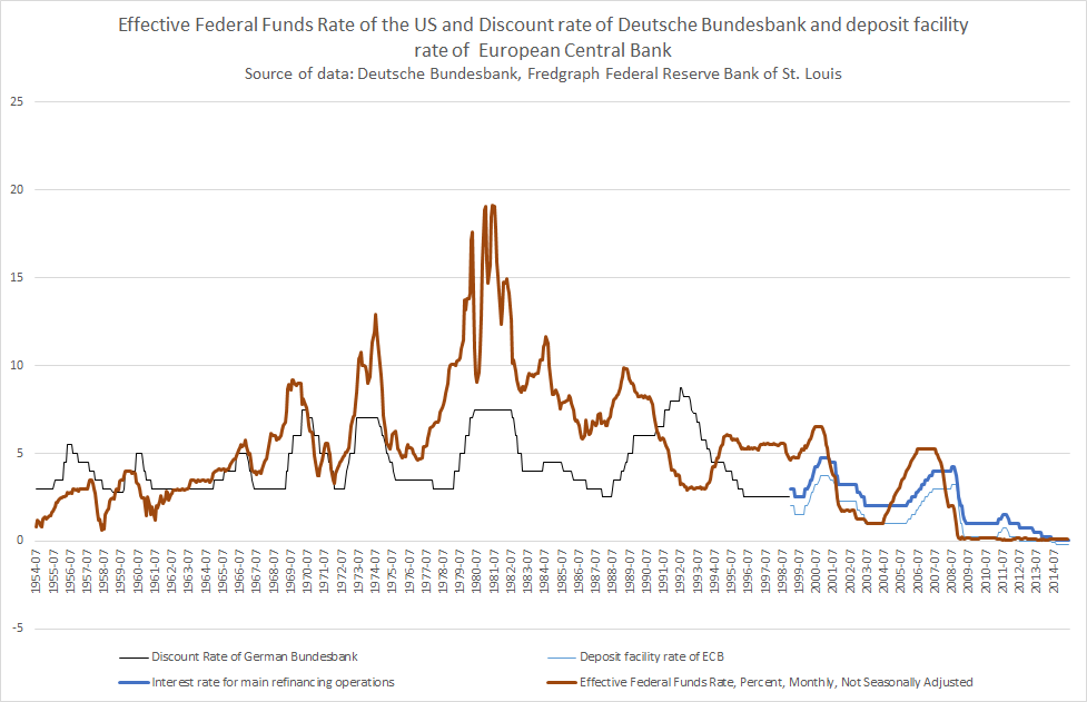 Federal Funds Rate, German Discount rate, European deposit rate